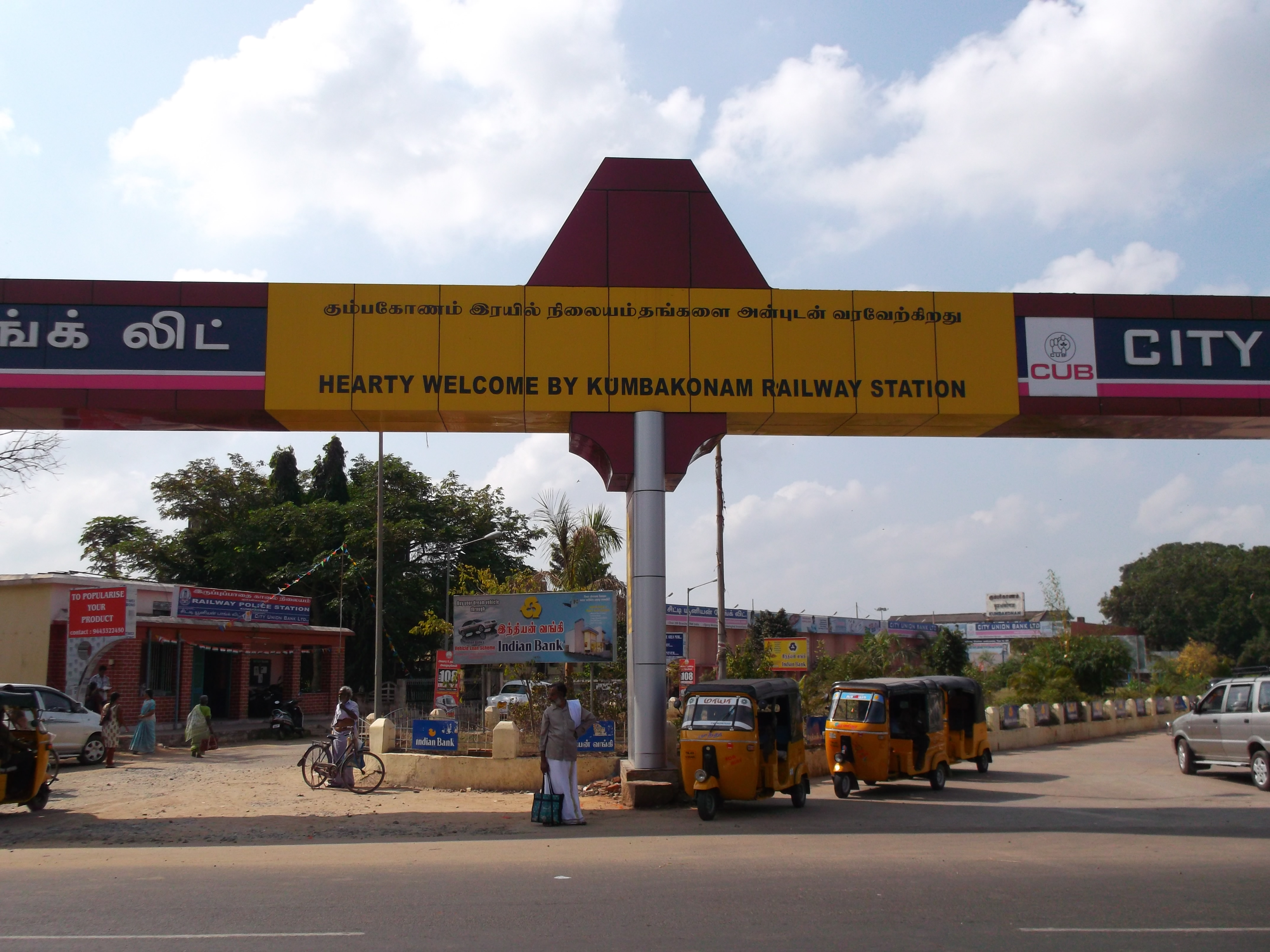 Kumbakonam railway station, entrance arch, taken on 27-Jan-2013